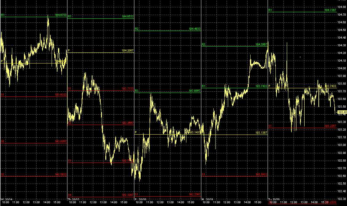 Intra-day pivot point trading chart of the SPDR Gold Trust (GLD) for 5 days in October 2009 ending on 10/20.